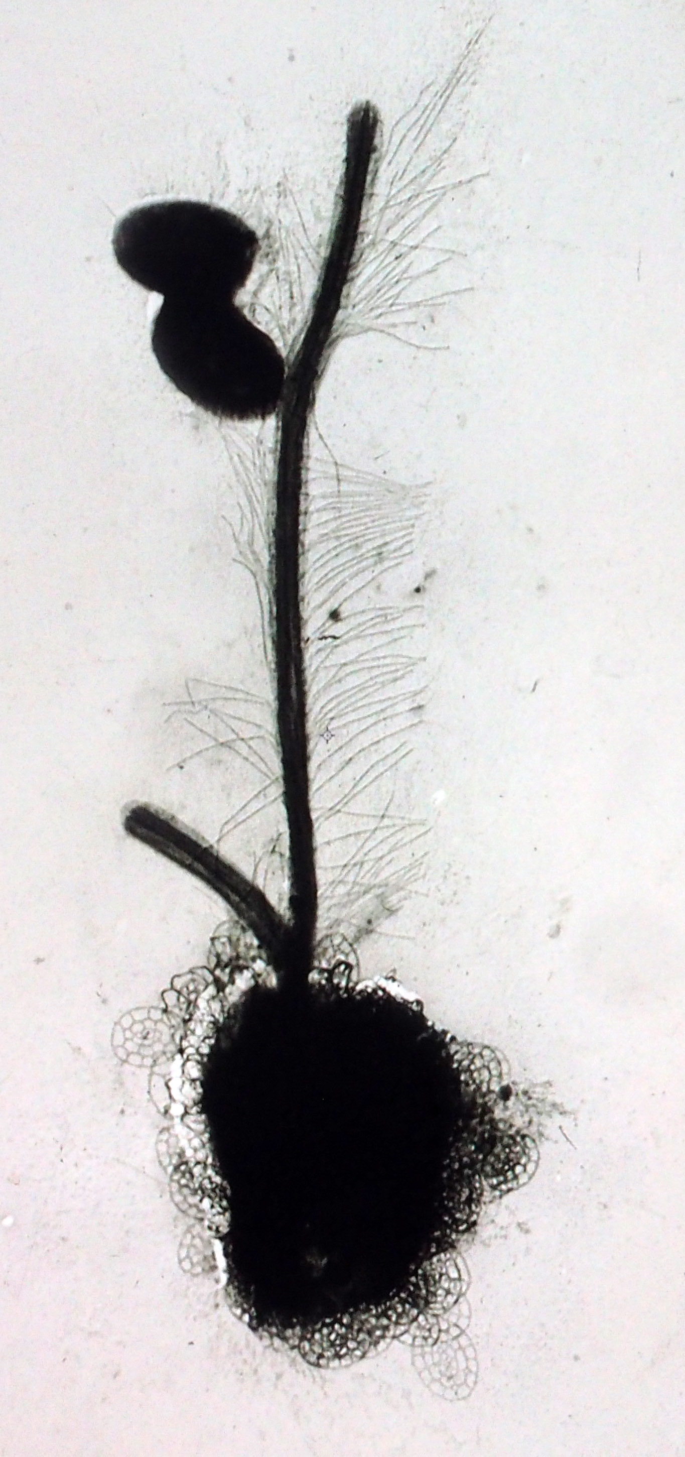 Paraphysomonas is a common genus of bacterivorous flagellate (two bacteria lie near the longer flagellum). A whole cell is shown. It has two flagella, one is short and without obvious embellishments, the other is longer and gives rise to stiff hairs. The body of the cell is coated in open-mesh scales.